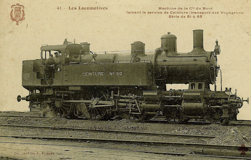 Compound locomotive of the line of Ceinture (around Paris) 4-6-0 60.